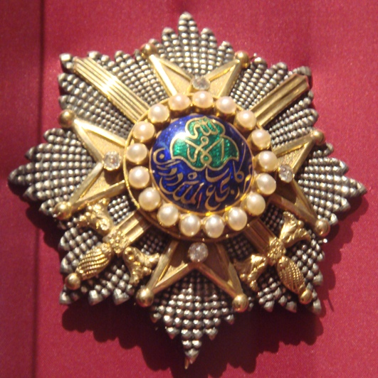 Order_of_the_Durrani_Empire_Afghanistan_received_by_Sir_Thomas_Willshire_1789_1862